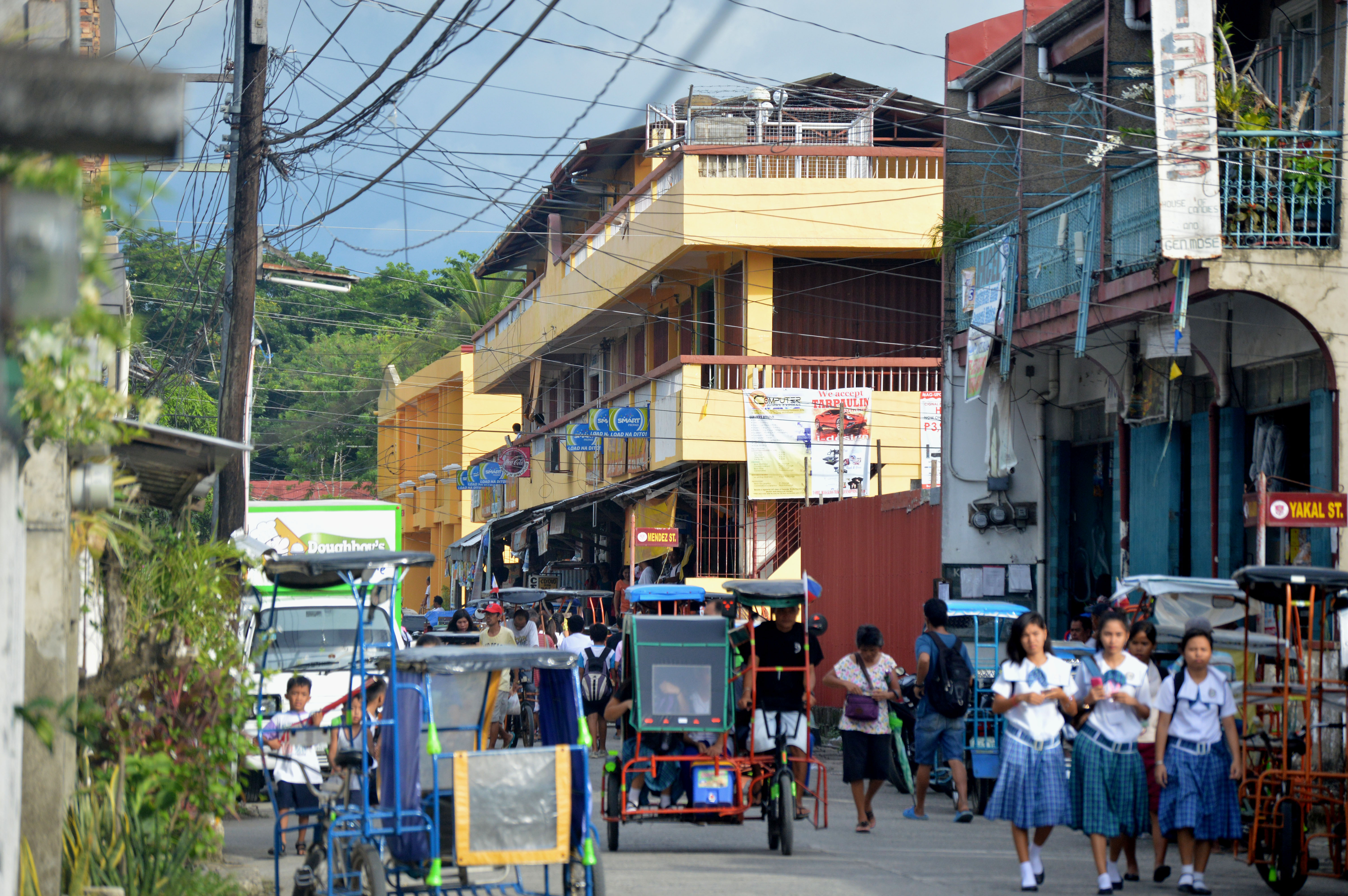 Mogpog Poblacion